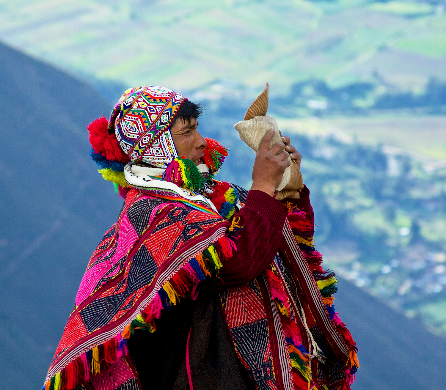 Peru - Day-hiking Ollantaytambo to Inti Punku Sun Gate 58 Q'eros "Paqo" (Healer and medicine man), in his ultra-bright traditional poncho and chullo (hat) calling the Apu mountain spirits to bless a mesa, a cloth-wrapped package of special found and collected power objects (like rocks and crystals from places you've done ceremony) that a person on the old path carries for ceremonies.